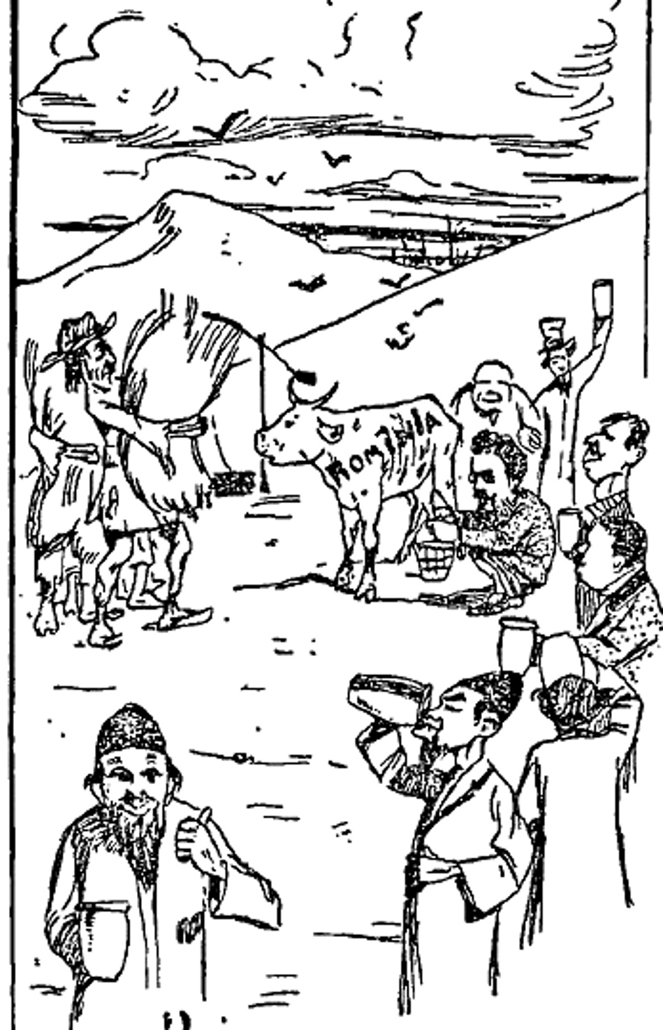 Antisemitic and anti-socialist cartoon in the Romanian satirical biweekly Lumea Vechĭe. Titled Ideal Sotir ("The Sotir Ideal"), after a socialist club in Bucharest. Romania is the cow pictured in the middle, its udders over-milked, its milk used to feed the socialists and the payot-wearing Jews.